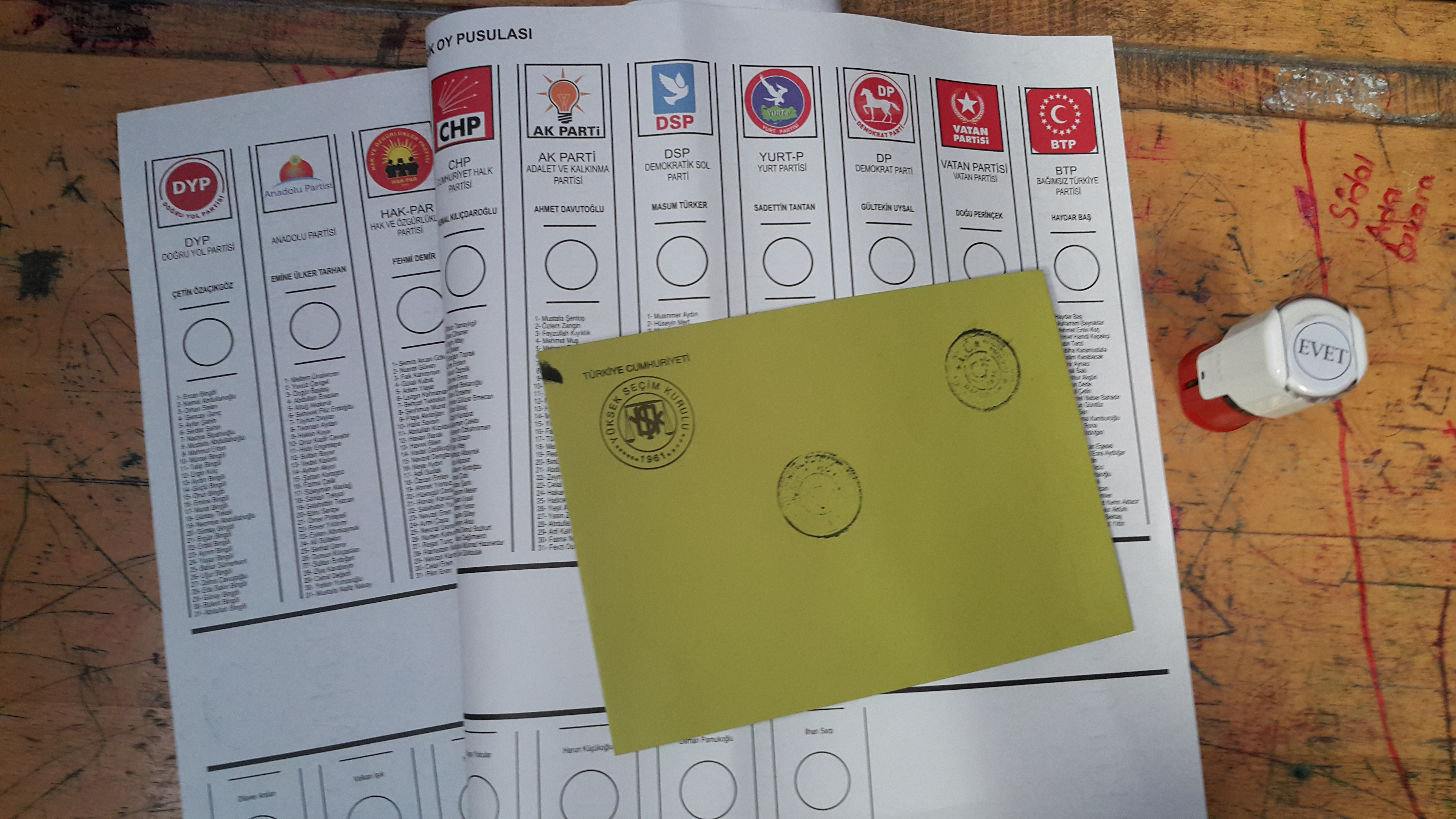 Ballot paper, which includes political parties and independent candidates, envelope and seal for 2015 Turkish General Elections.